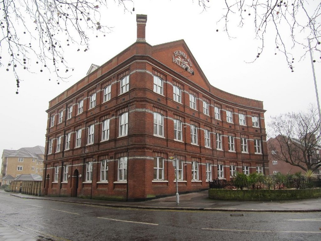 The last bit, near to Reading, Great Britain. The last remaining bit of the once great Huntley and Palmers factory on Gasworks road off the Kings Road in Reading. There is a fine bench mark on the corner in the centre of the picture. SU7273 : Bench Mark on Huntley and Palmers